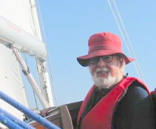 Author